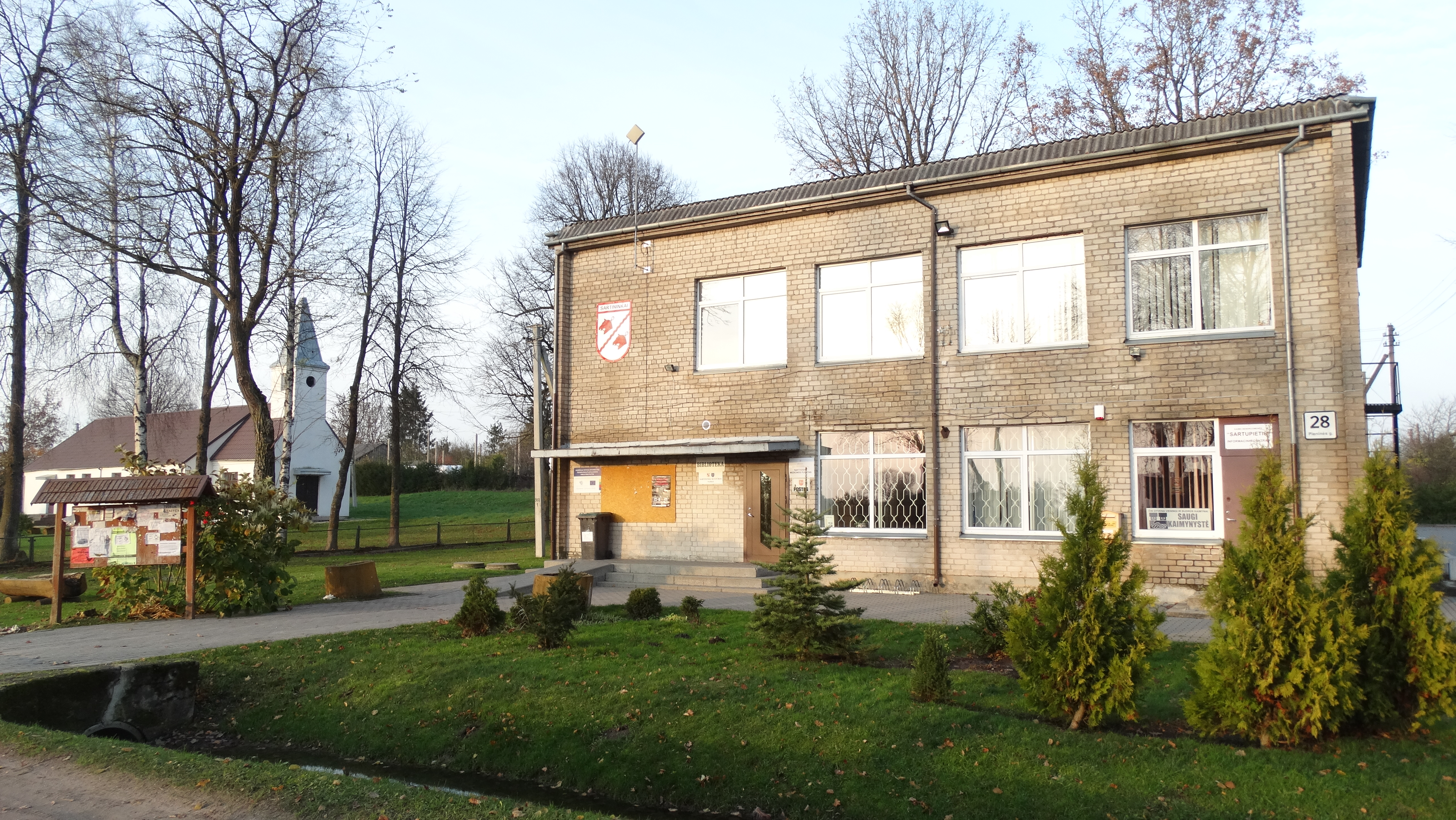 Sartininkai, Tauragė district, Lithuania